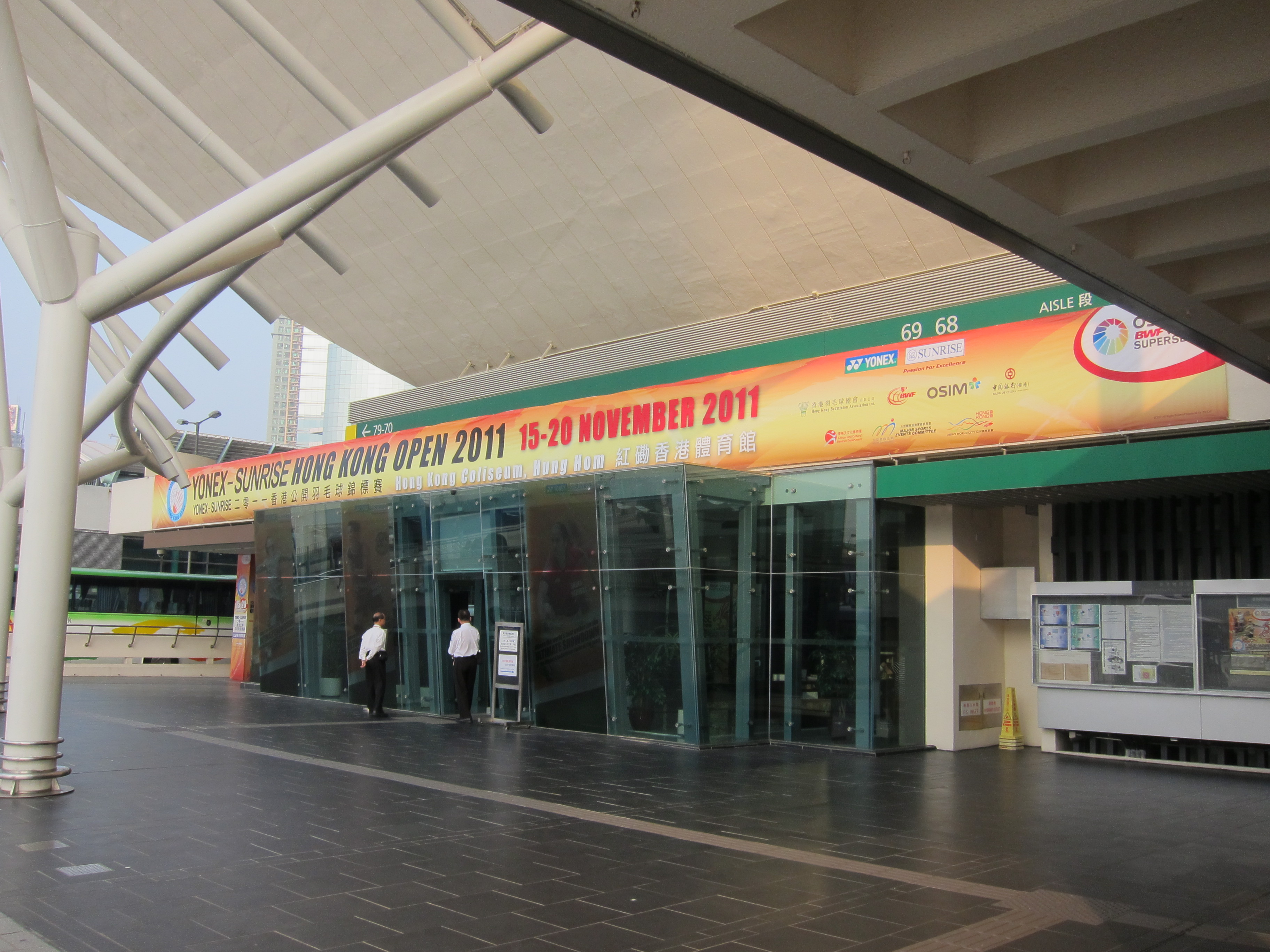 The Venue of Hong Kong Open Badminton Championships 2011 - Hong Kong Coliseum